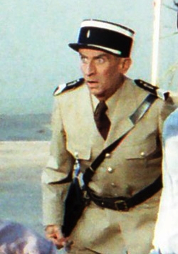 Louis de Funès during the shooting of the french movie The Gendarme and the Creatures from Outer Space.